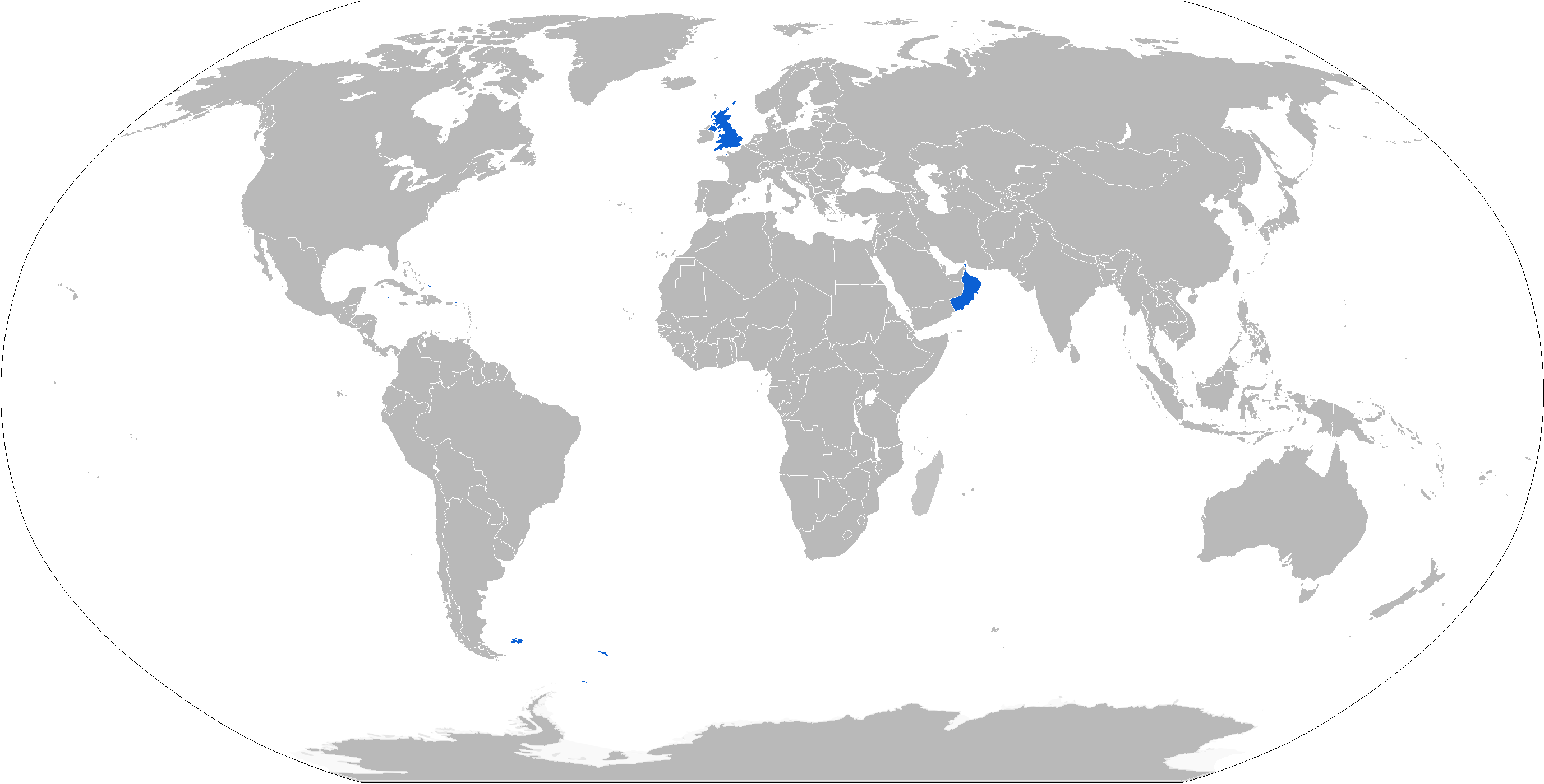 Map of Challenger 2 operators.